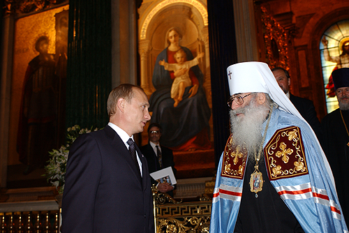 ST ISAAC\'S CATHEDRAL, ST PETERSBURG. President Putin with Metropolitan of St Petersburg and Ladoga Vladimir.